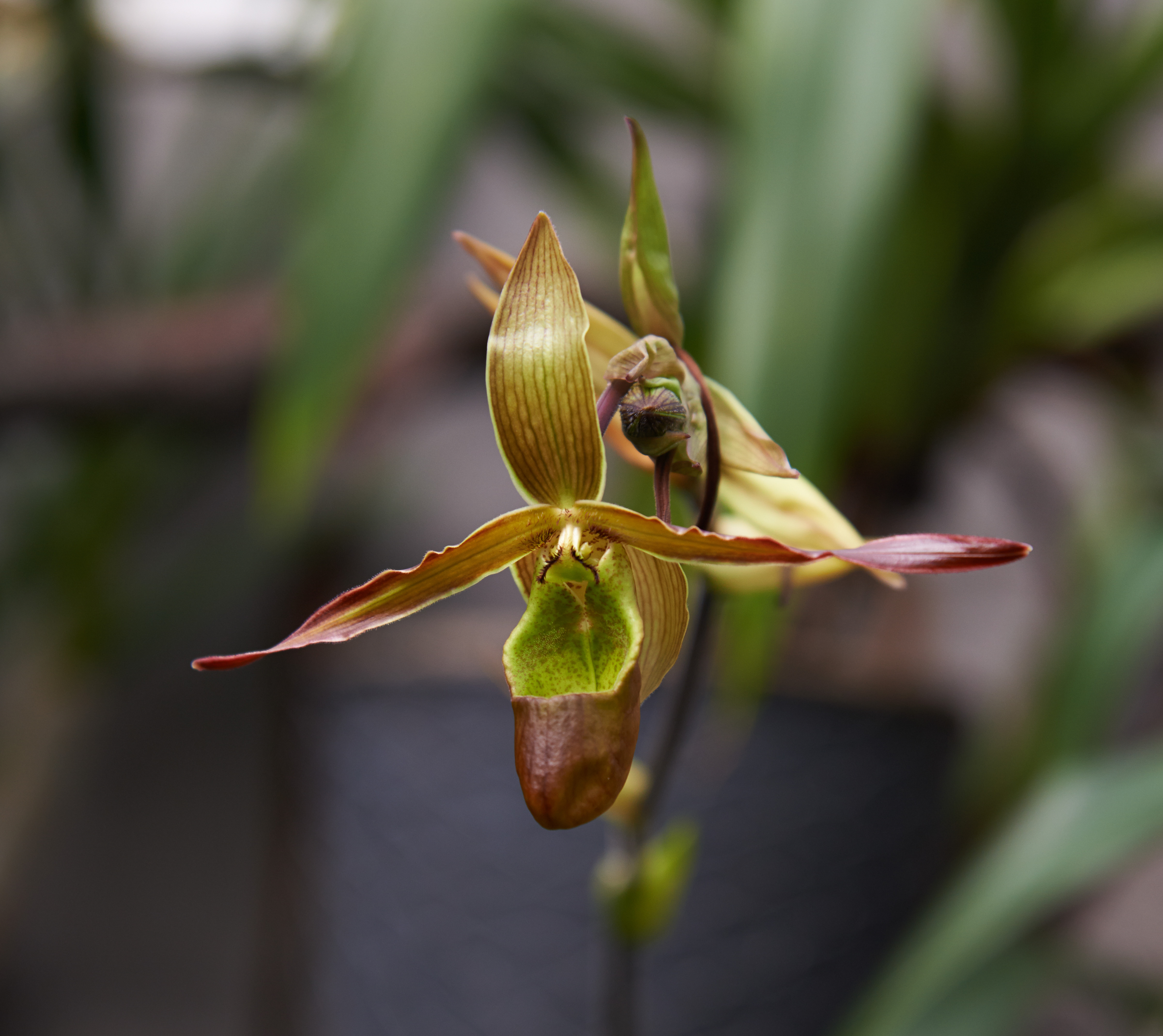 Phragmipedium cultivar (Phragmipedium longifolium × Phragmipedium boissierianum × Phragmipedium sargentianum). Photo taken at Cymbiflor, Overijse, Belgium